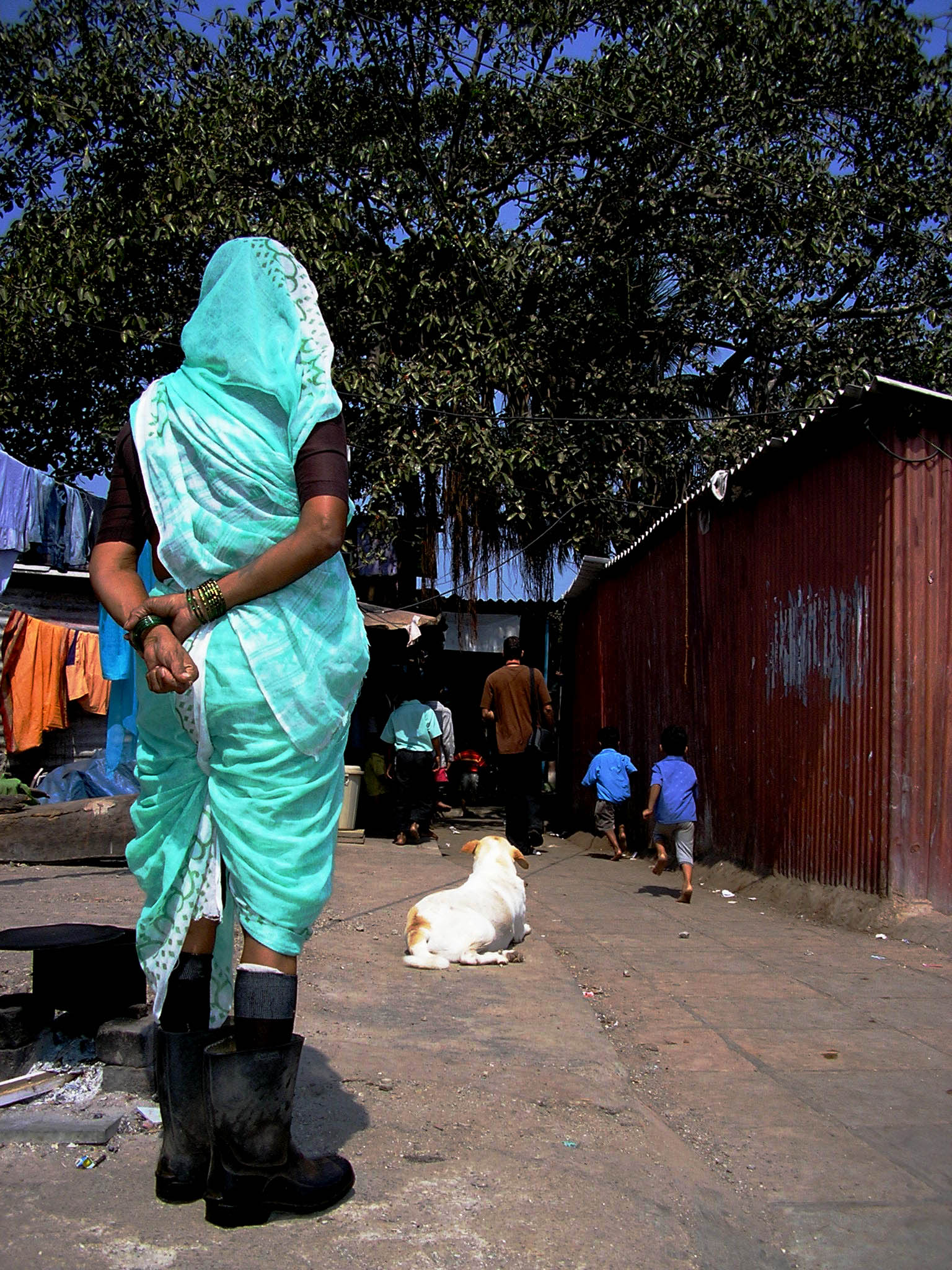 Woman wearing a Maharashtran sari and boots. Photography by the NGO medaptFisherman's Village, Mumbai